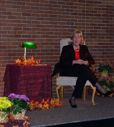 Author Linda Fairstein, 2003 Recipient of the Royden B. Davis Distinguished Author Award